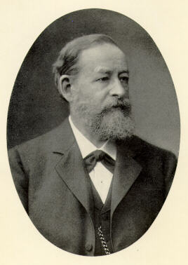 Robert Michaelis von Olshausen (1835–1915), German gynaecologist